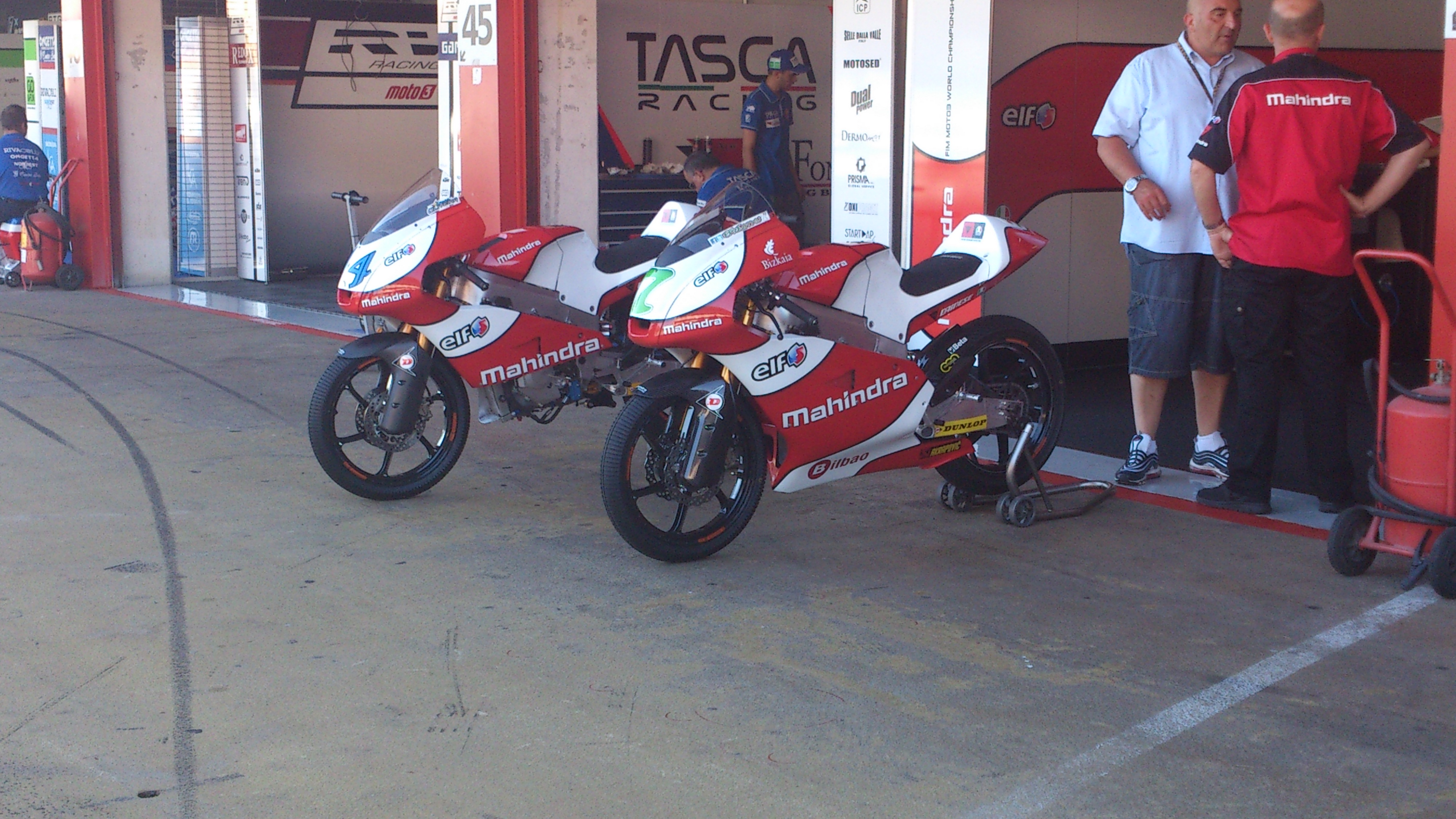 Mahindra Moto3 racers at 2013 Catalunya Grand Prix